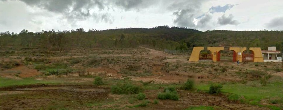 Arcos en Parque Estatal Cerro Gordo